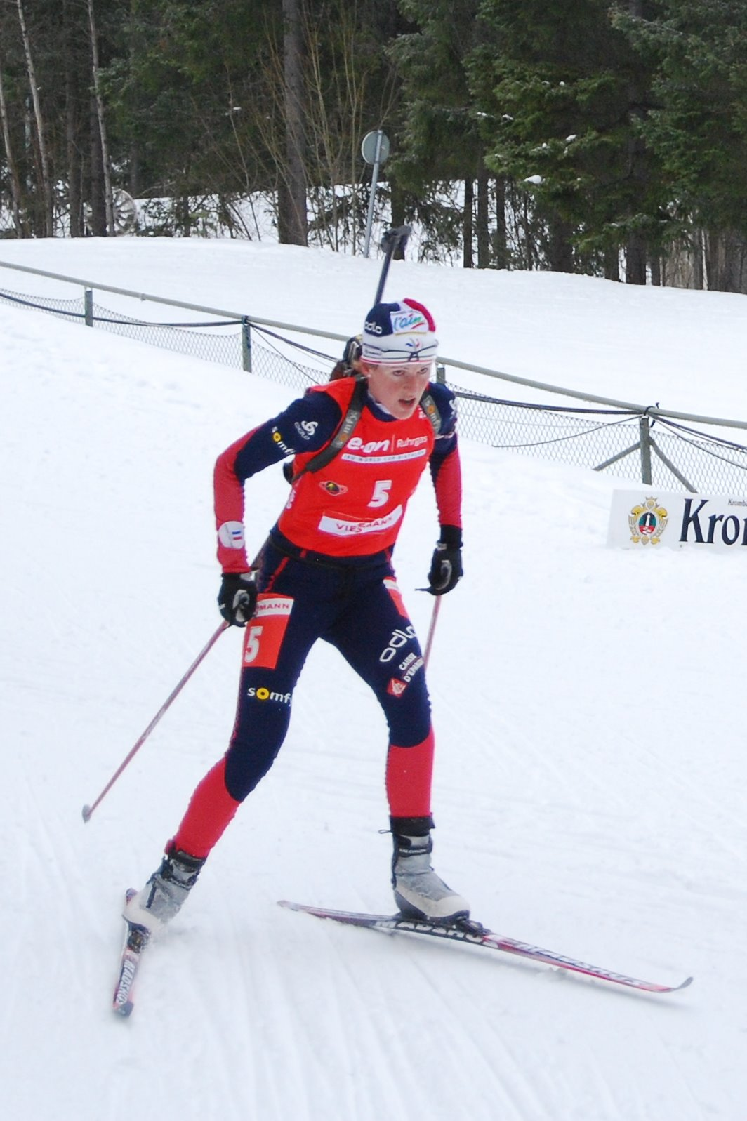 French biathlete Sandrine Bailly during the World Championships in Östersund 2008.